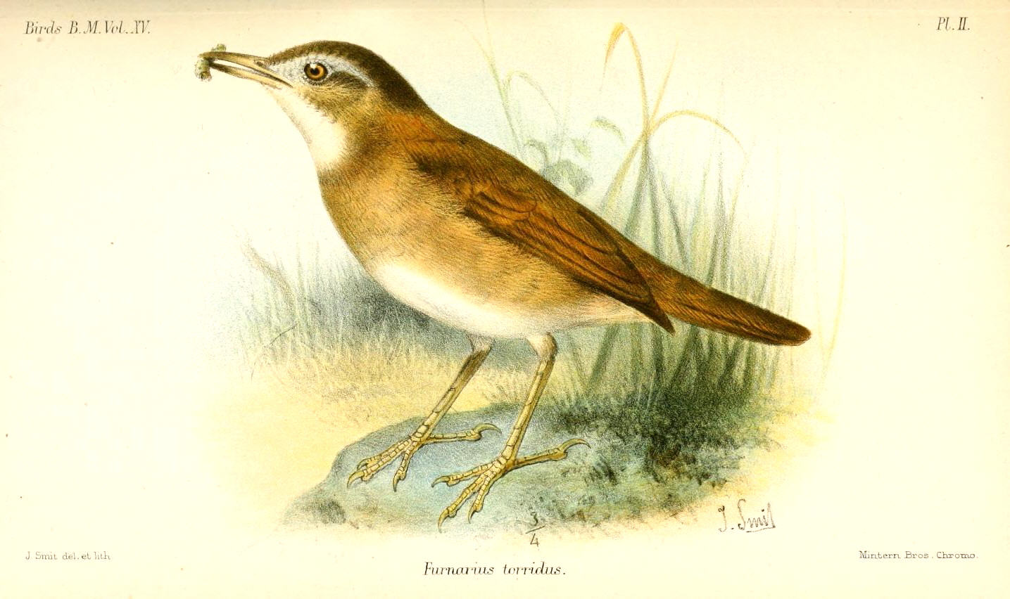 Furnarius torridus, Bay Hornero